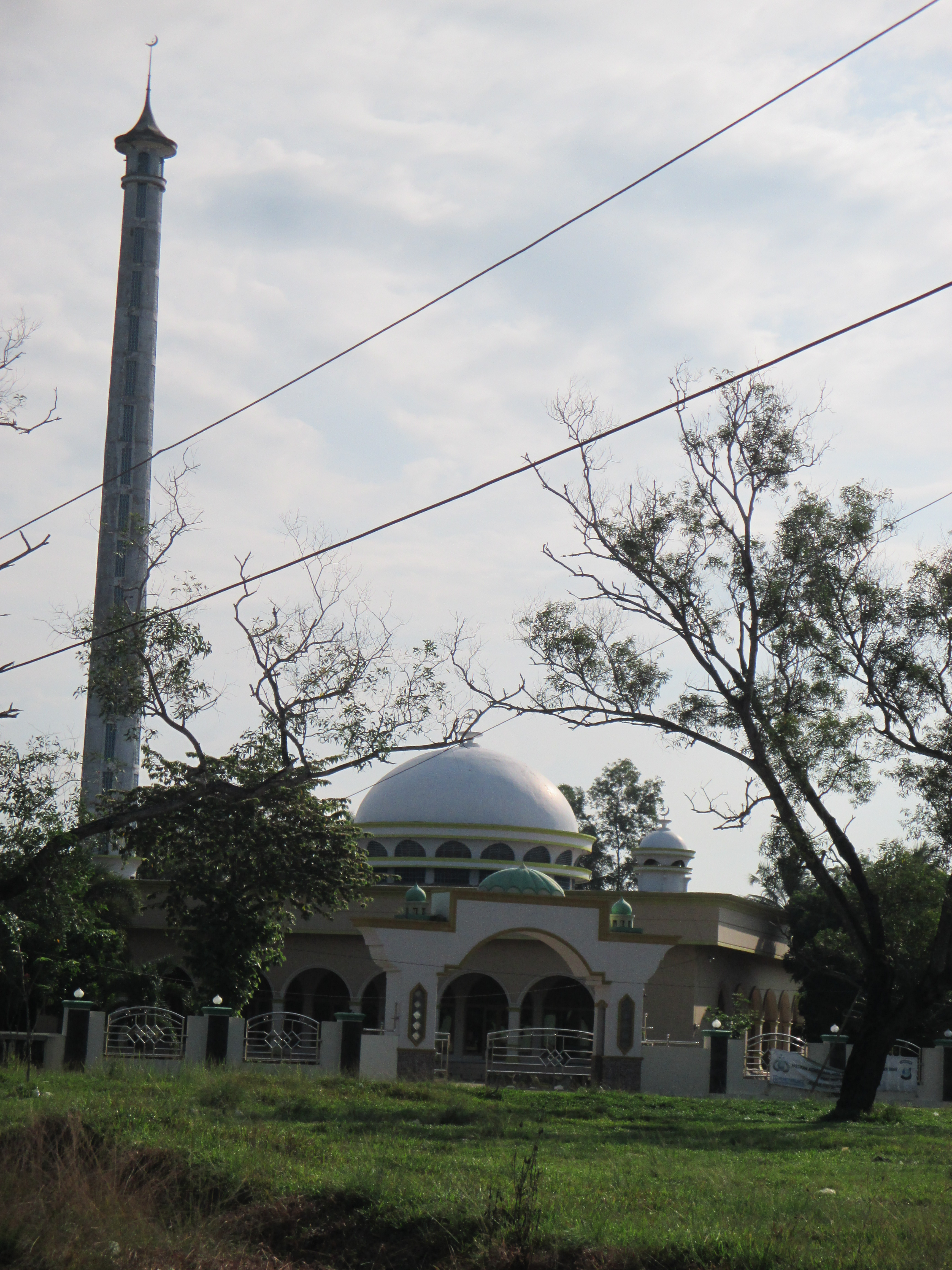 Al-Falaq Great Mosque in Purbolinggo, Indonesia